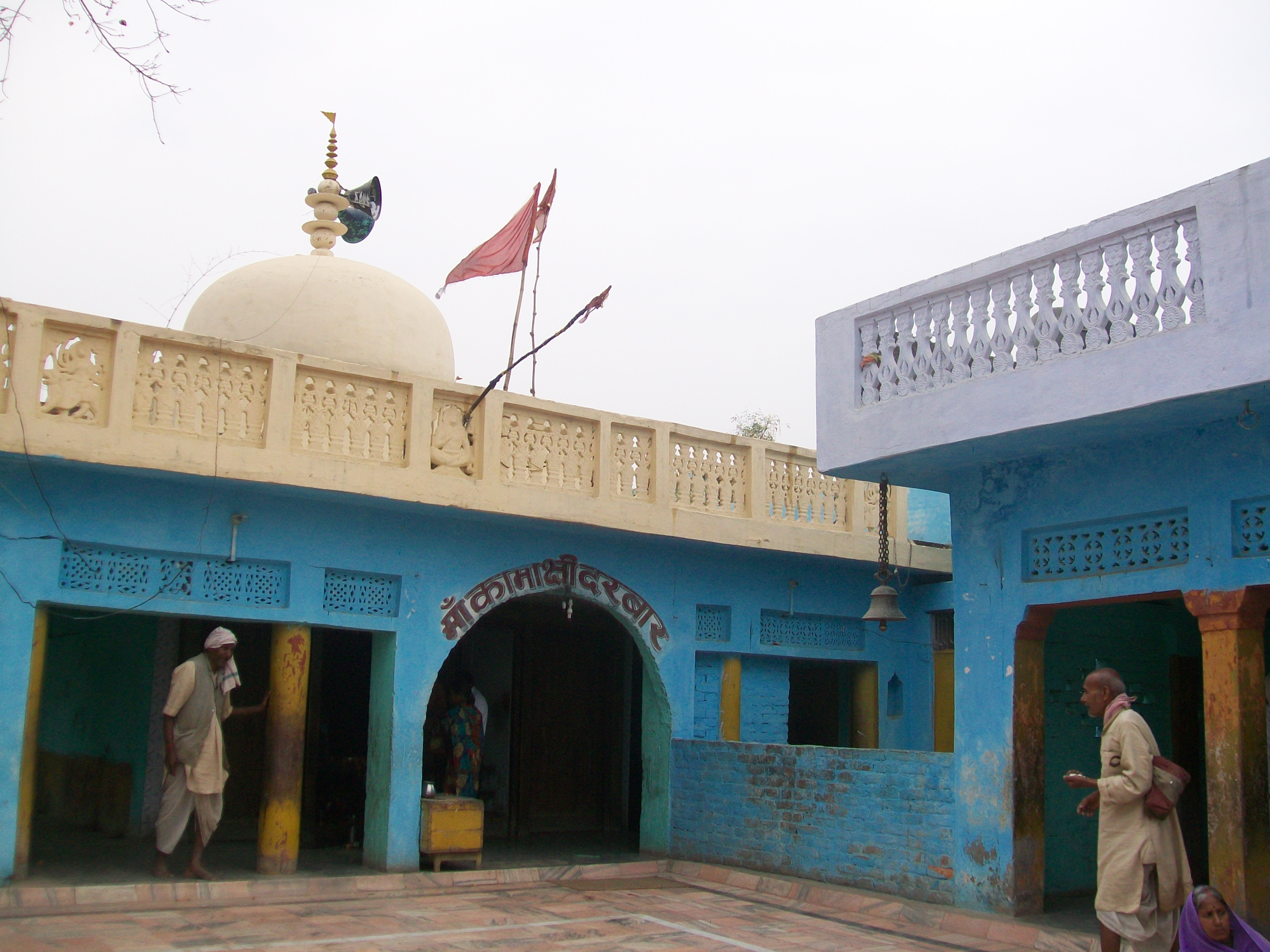 Kamakshi Devi Temple, Kamasin, Pratapgarh, Uttar Pradesh